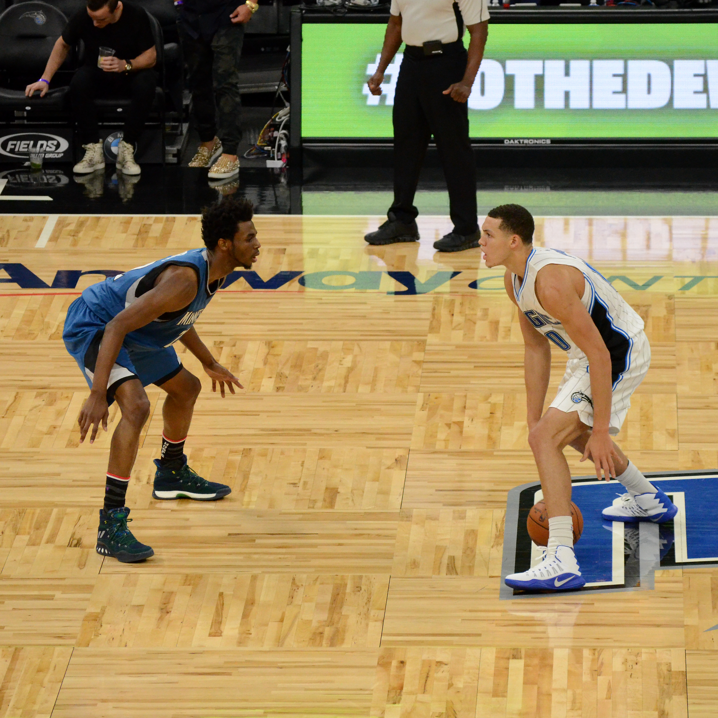 Andrew Wiggins of the Minnesota Timberwolves and Aaron Gordon of the Orlando Magic